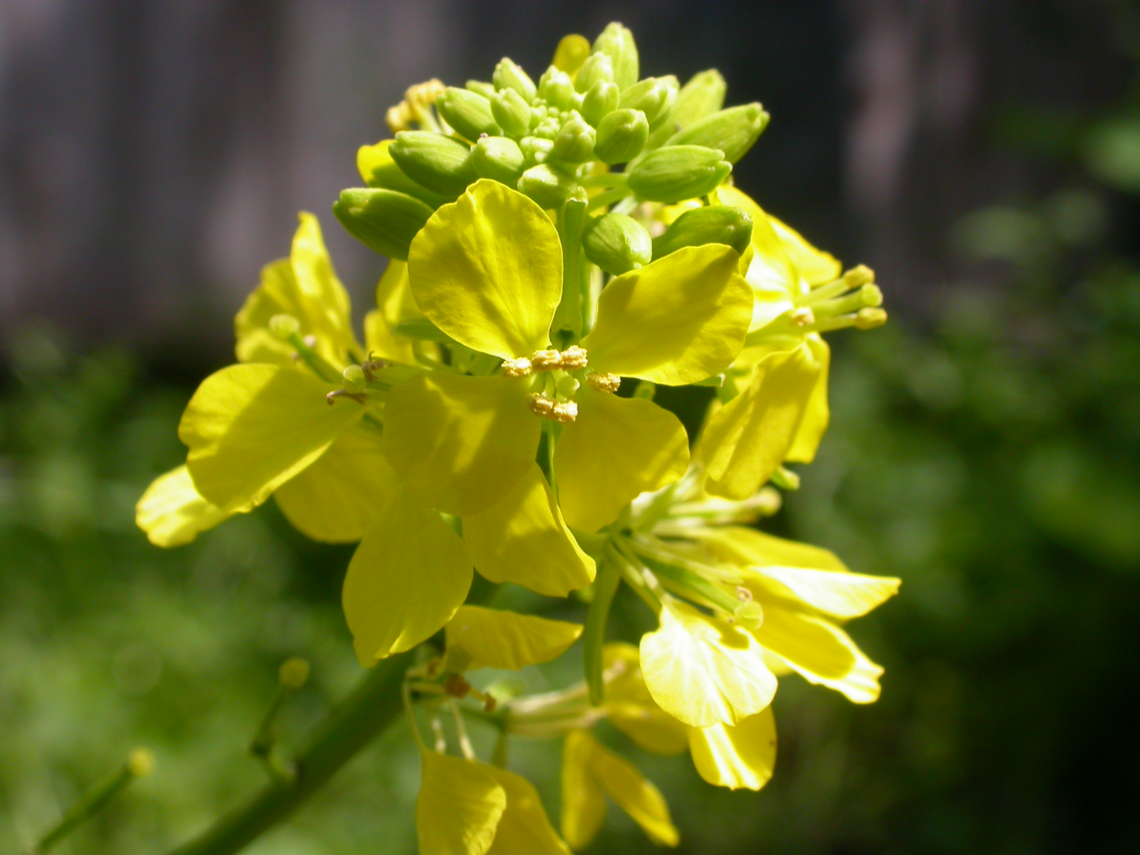 The two pairs of stamens are much longer the two solitary stamens.